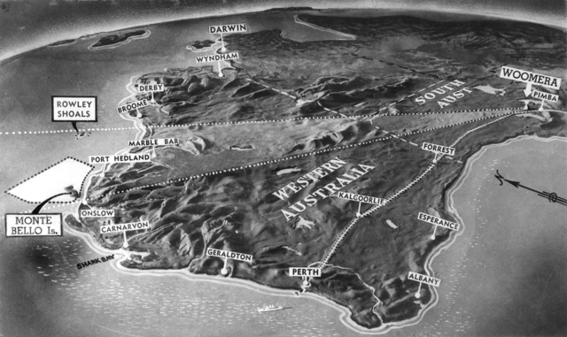 British atomic bomb tests on Monte Bello Islands, WA, October 1952. A map of Australia showing the Monte Bello Iislands and Rowley Shoals in relation to Woomera rocket range. At one time it was considered likely that rockets with atomic warheads would be fired from Woomera towards the Monte Bellos. Both the Monte Bellos and Rowley Shoals were declared a prohibited area by the Commonwealth Government. No one was allowed to approach the areas without official permission and aircraft were not permitted to fly near them.